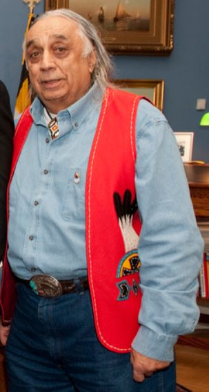 Billy Tayac tribal leader of the Piscataway Indian Nation and the Piscataway Conoy Tribe in Annapolis on January 9, 2012.